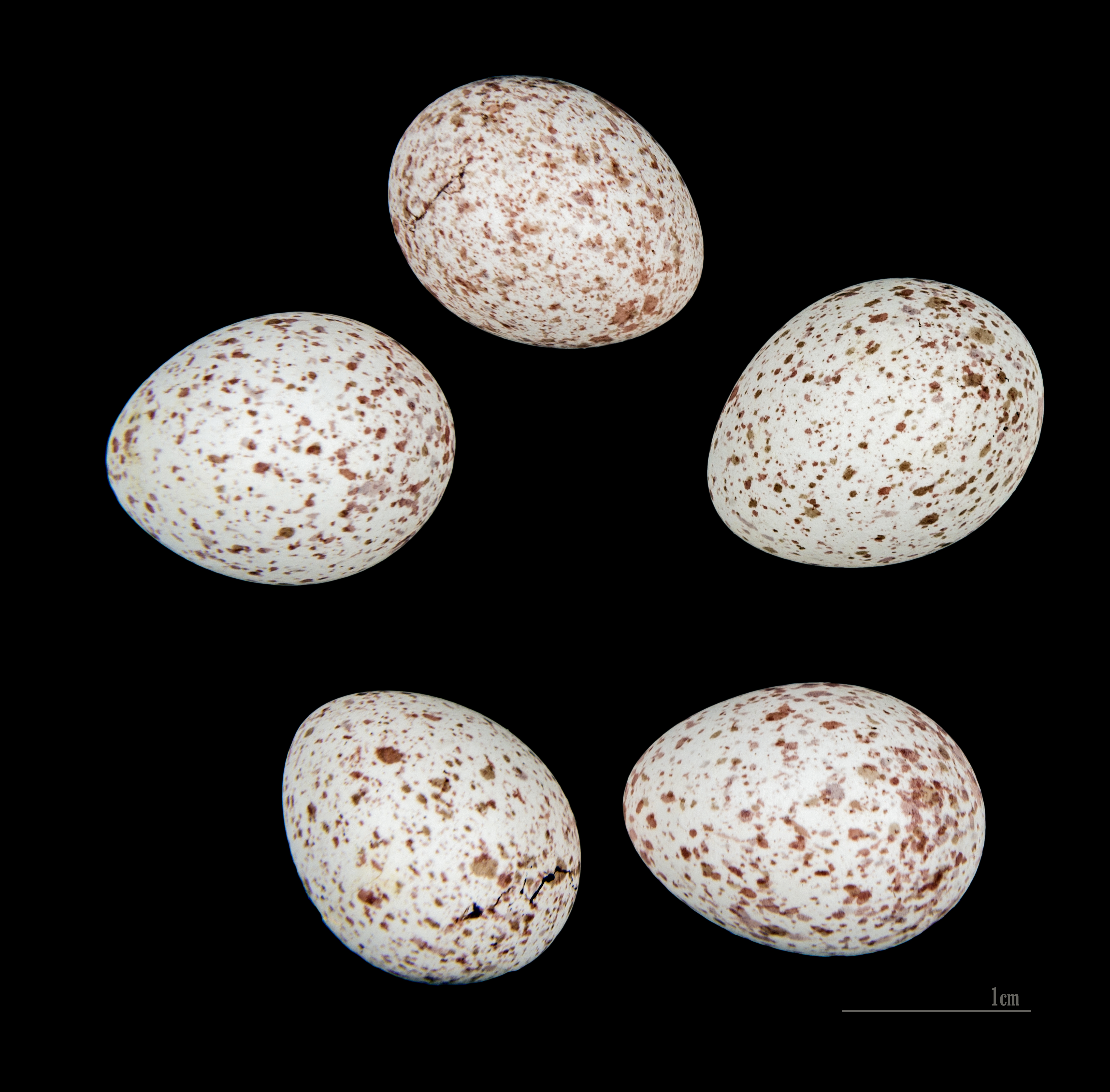 Egg of Great Tit (excelsus). Collection of Jacques Perrin de Brichambaut.